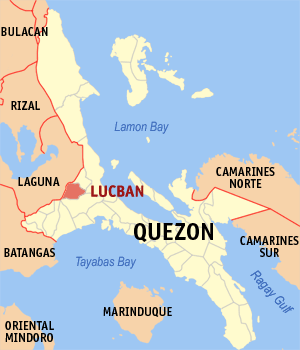 Map of Quezon showing the location of Lucban